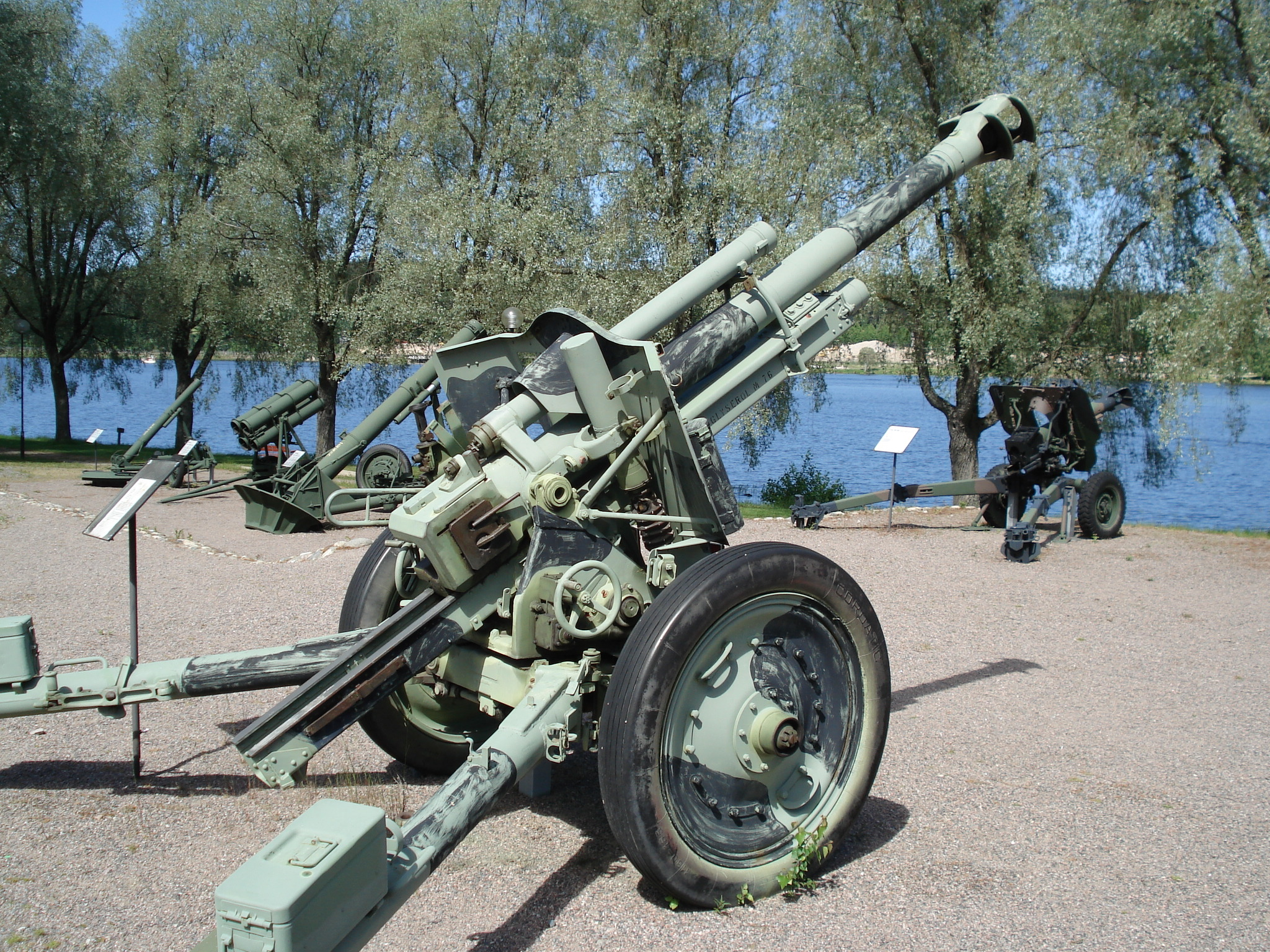 105 H/33-40 (105 mm Howitzer model 1933-1940) (10,5 cm lFH 18/40), displayed in Hämeenlinna Artillery Museum. This howitzer was one of the mainstays of German artillery during World War II.